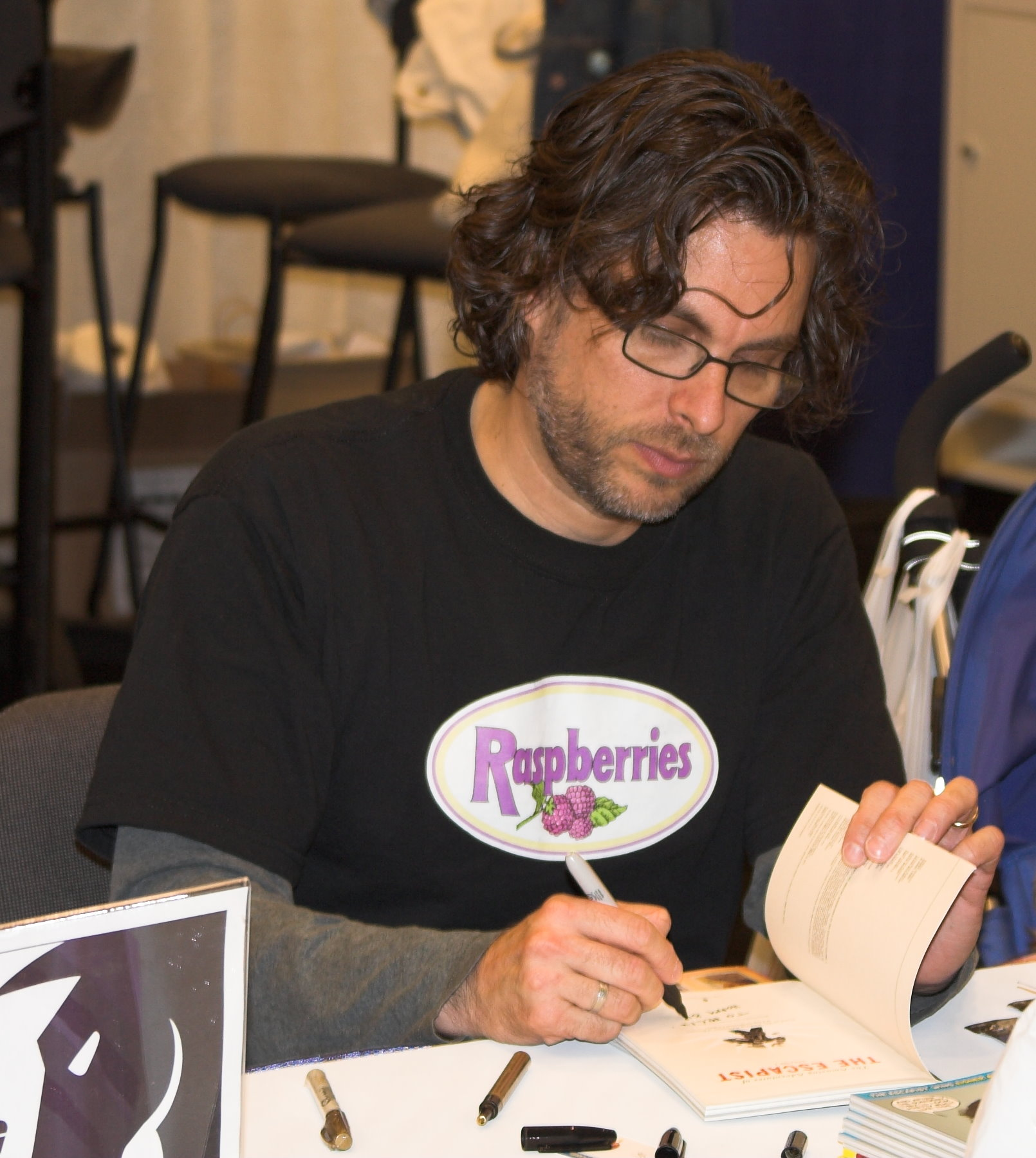 Photograph of author Michael Chabon at a book signing at WonderCon in 2006.